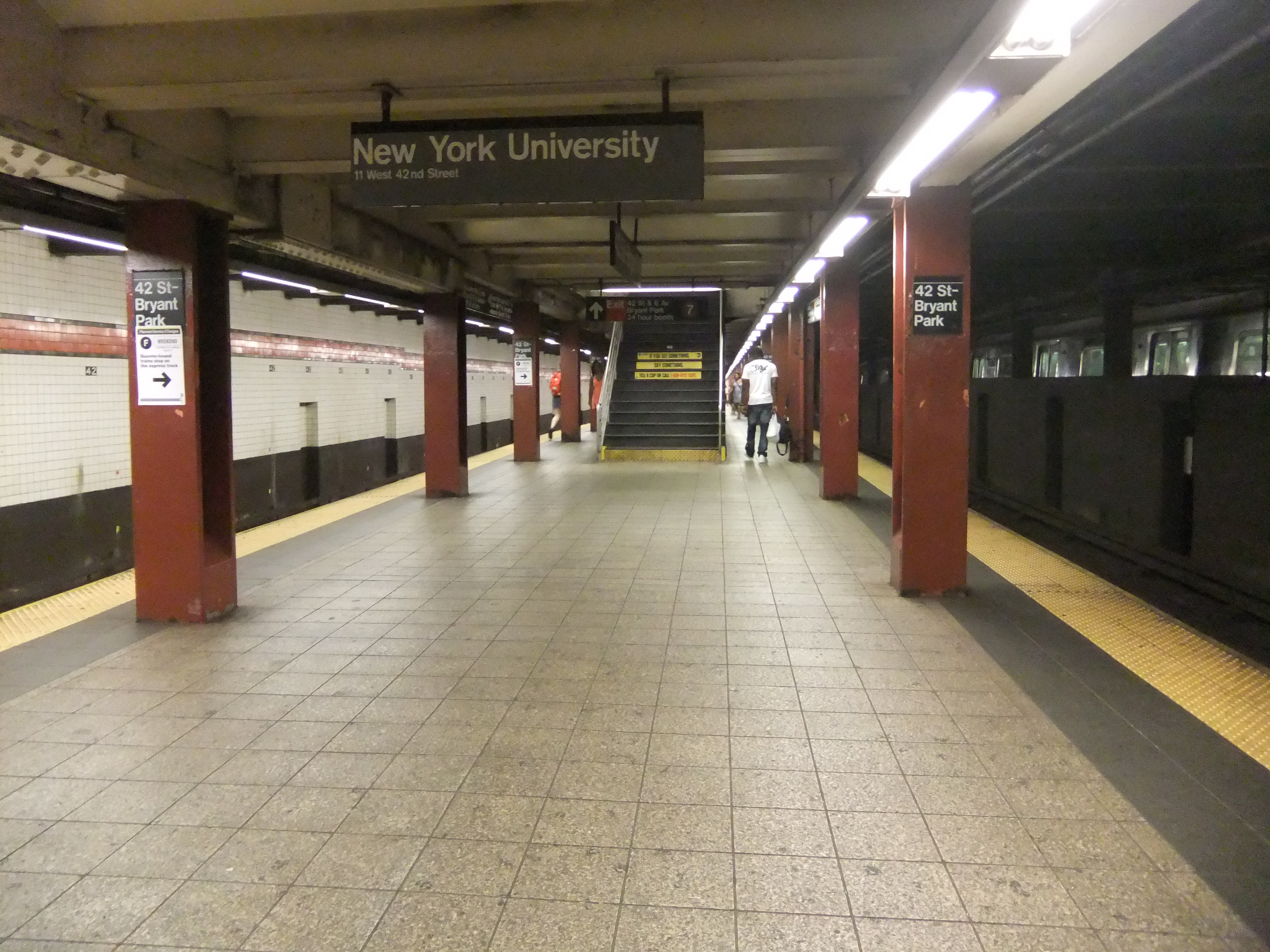 Uptown B/D/F/M platform at 42nd Street - Bryant Pk.